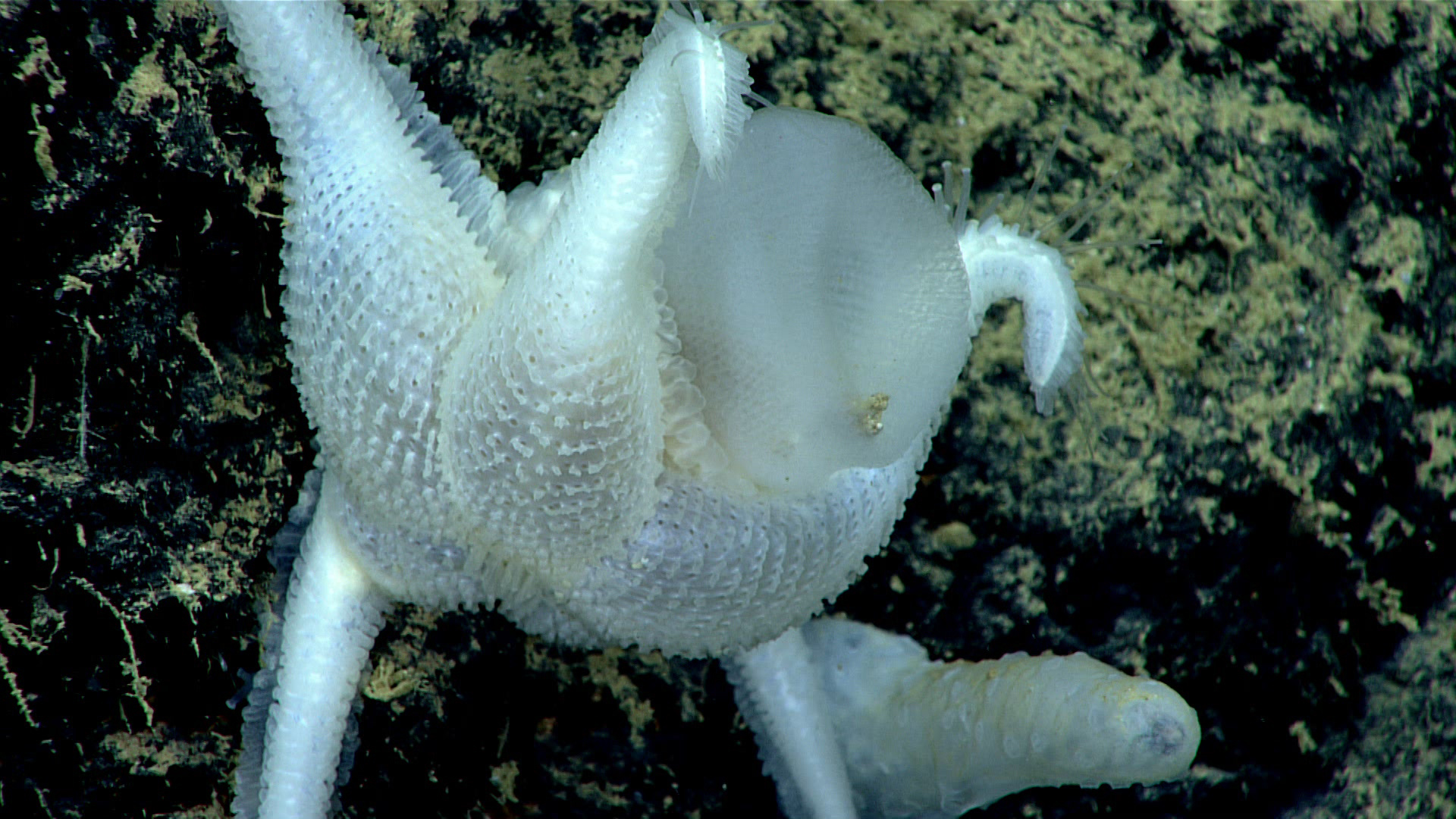 This sea star (Pythonaster atlantidis), from a poorly understood and rarely seen genus of sea stars, was observed feeding on a glass sponge during the Gulf of Mexico 2018 expedition.